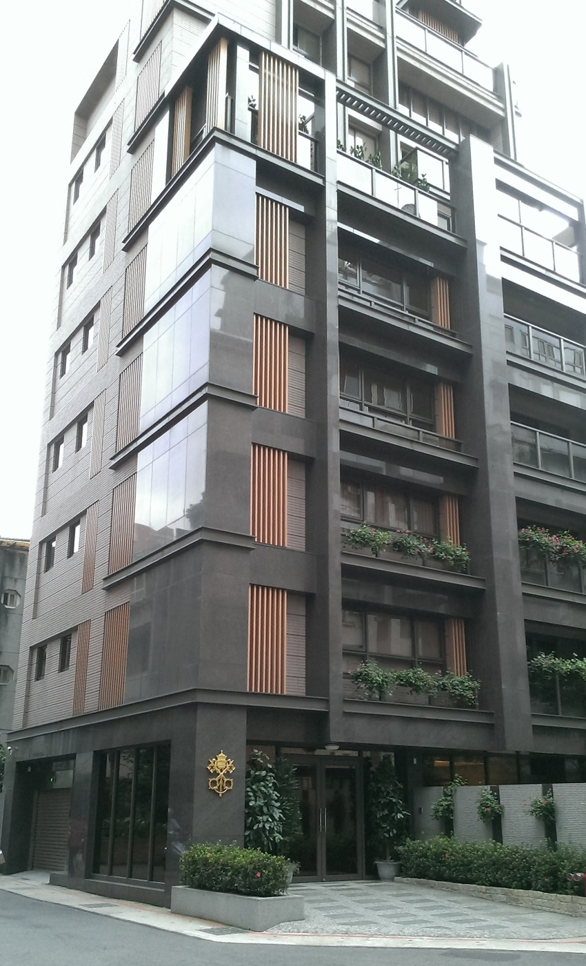 Apostolic Nunciature to ChinaLatina: Nuntiatura Apostolica in Sinis